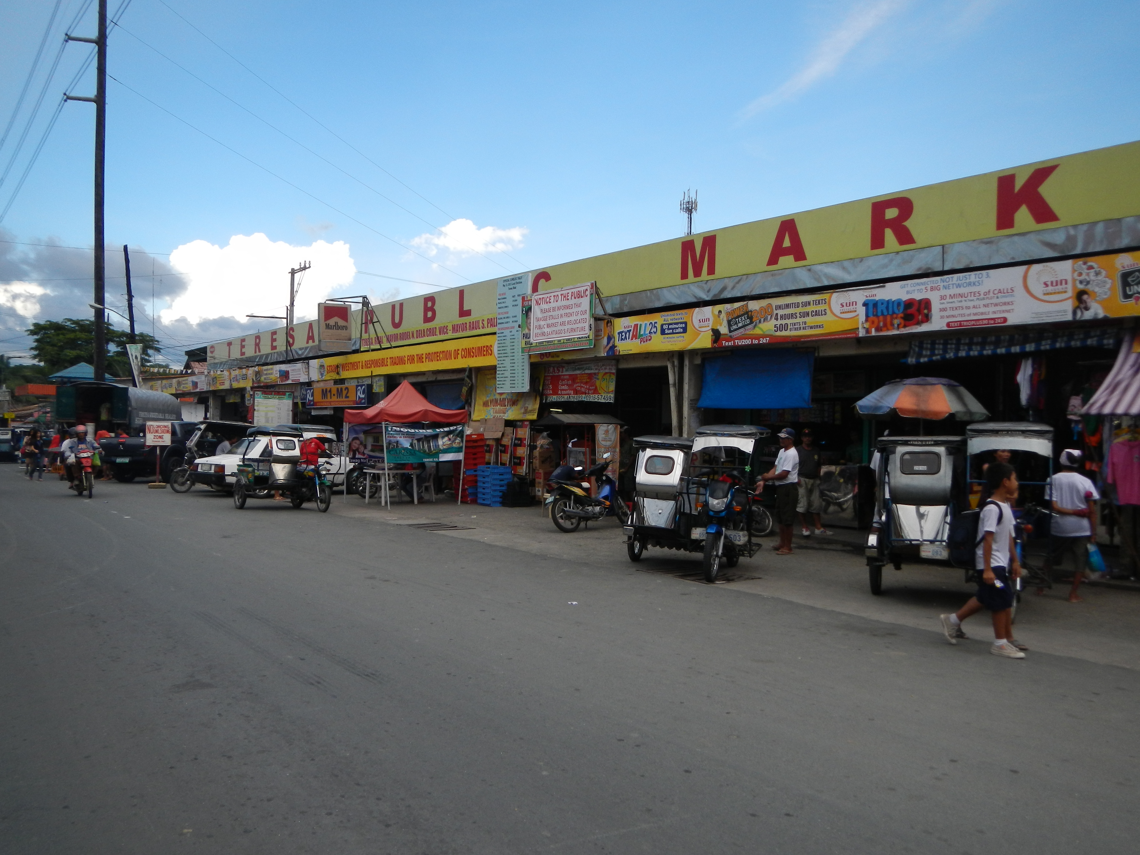 Downtown, Town Proper, Jollibee, Public Market, Business Center of ---- Teresa, Rizal [1] is a first class municipality in the province of Rizal, Philippines subdivided into 9 barangays. According to the latest census, it has a population of 44,436 inhabitants in the slopes of the Sierra Madre Mountains and is landlocked on four corners by Antipolo City on the north, Angono on the west, Tanay, on the east, and Morong, on the south. The MRF or Materials Recovery Facility (Teresa Integrated Solid Waste Management Facility) was completed last December 15, 2007 at Pantay Buhangin Road, Barangay Dalig. The town's patron saint, St. Rose of Lima.[2] After three years of independence, the town acquired a municipal building on November 8, 1921, which was called Presedencia. Election 2013 Website [3] Coordinates: 14°33'46"N 121°13'28"E [4] This place is situated in Rizal, Region 4, Philippines, its geographical coordinates are 14° 33' 31" North, 121° 12' 30" East and its original name (with diacritics) is Teresa.